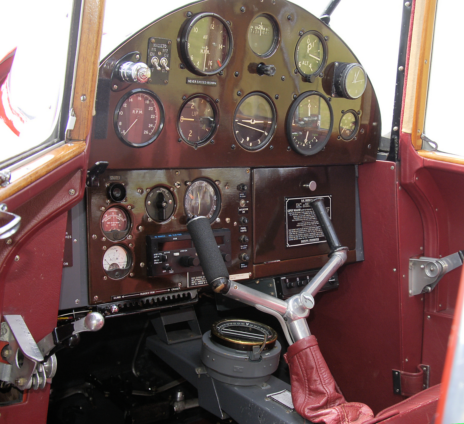 de Havilland DH87B Hornet Moth (G-ADNE) at the Great Vintage Flying Weekend at Hullavington Airfield, Wiltshire, England. The aircraft was built in 1936.